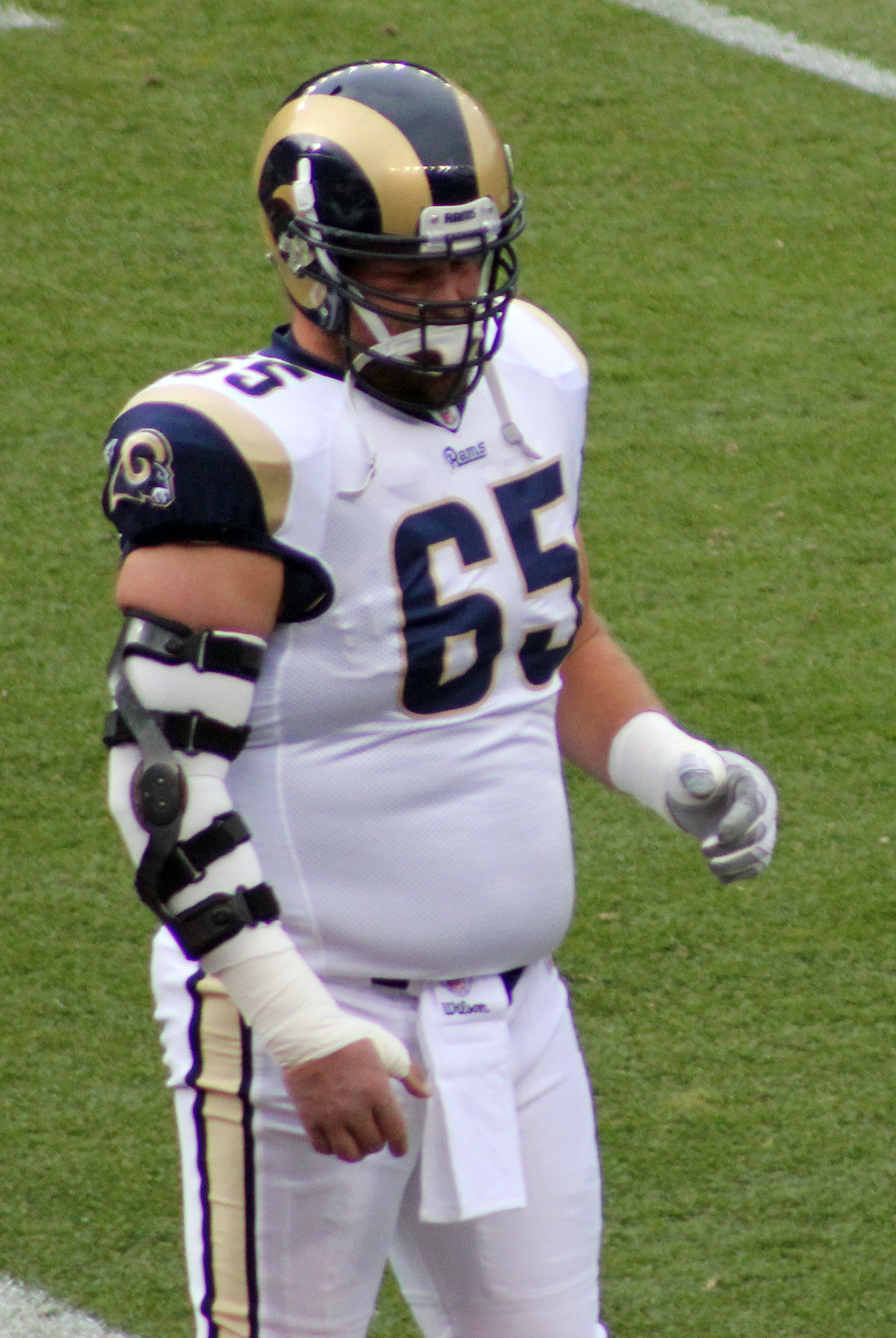 Hank Fraley, a player on the Saint Louis Rams American football team.